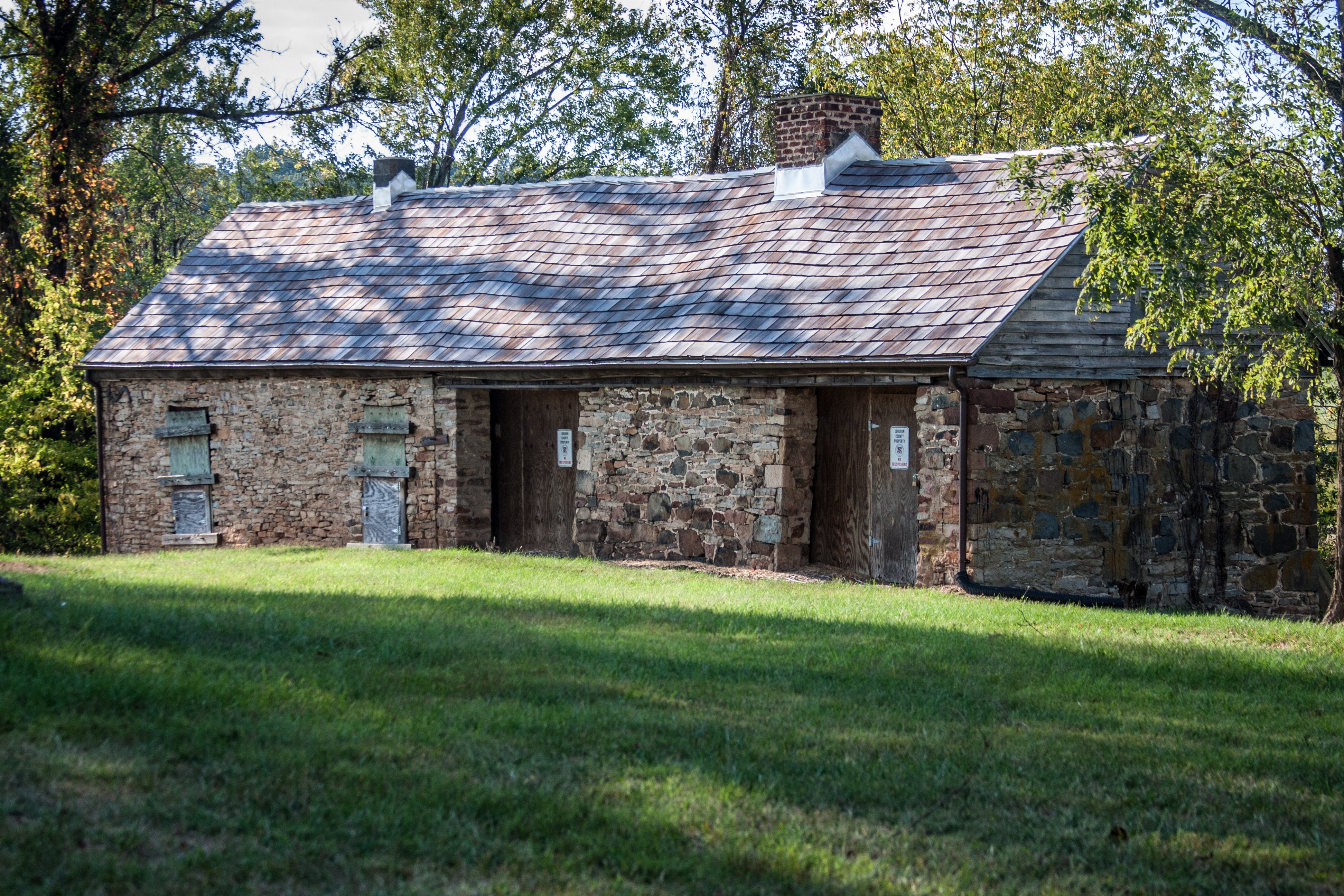 Arcola Slave Quarters Arcola Slave Quarters, Arcola, Virginia - stone building on historic property in Loudoun County